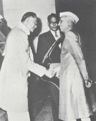 Jawaharlal Nehru with Jayaprakash Narayan